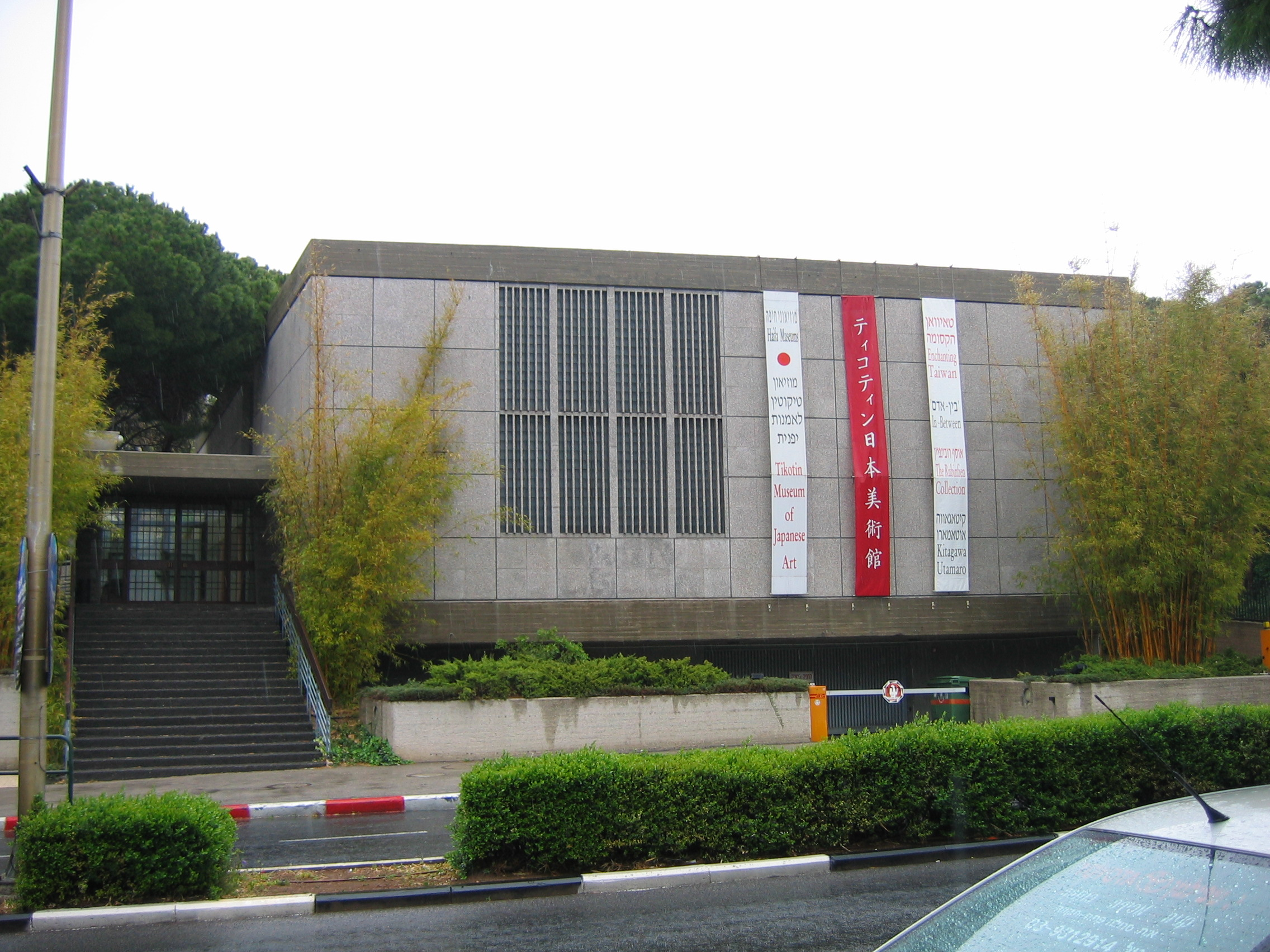 Taken by Asaf Elron on April 1st, 2006.